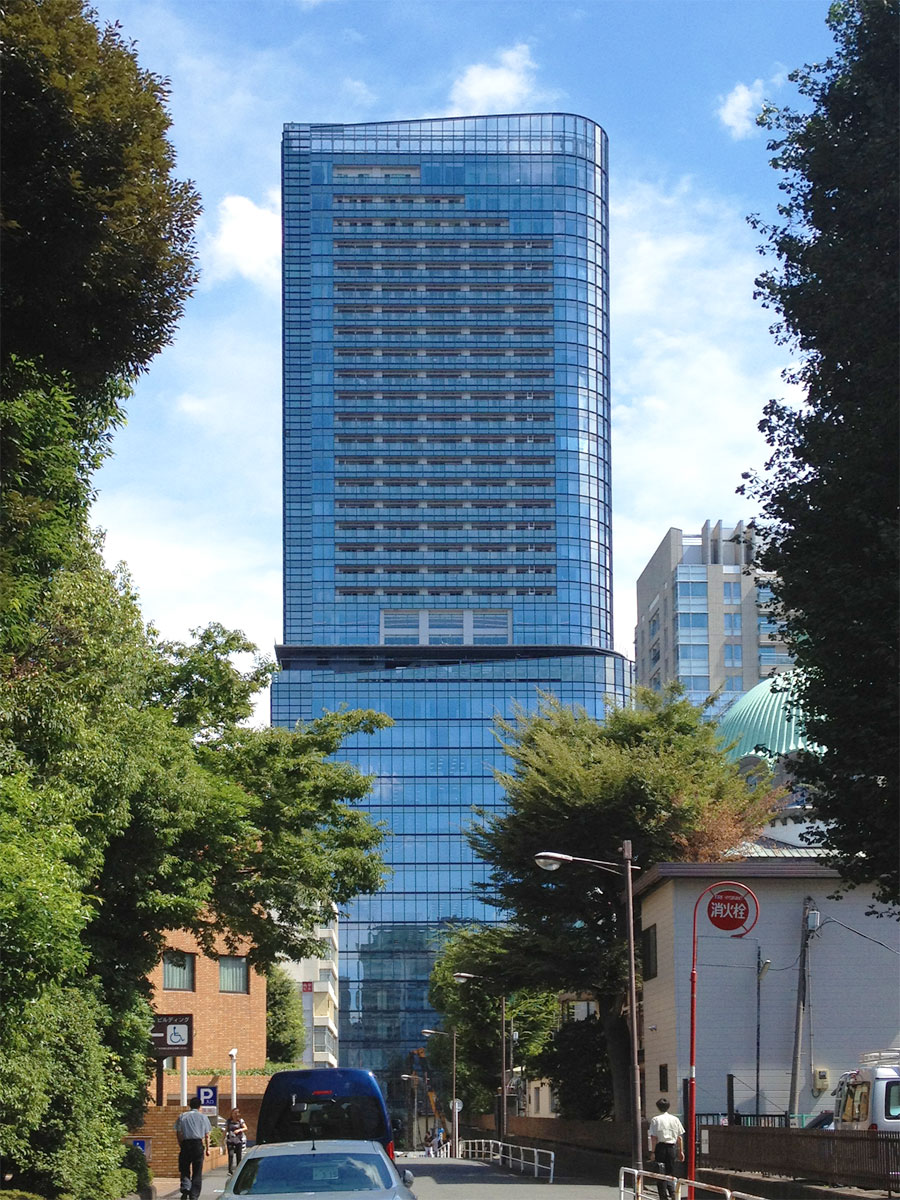 Waterras tower building